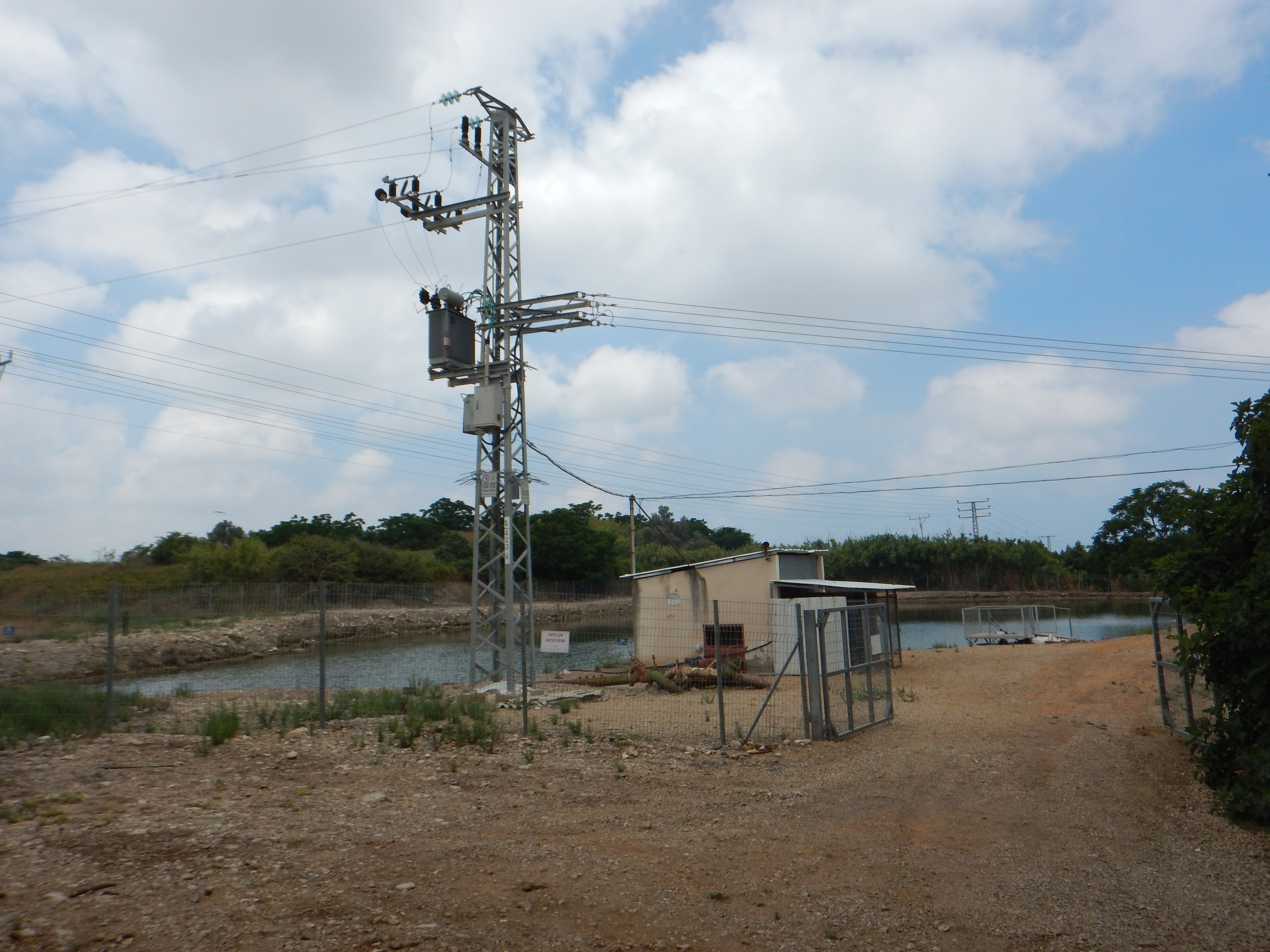 'Ein Shefa' is one of two major springs—the other being 'Ein Giah—located on Tel Kabri and one of four associated with the site.